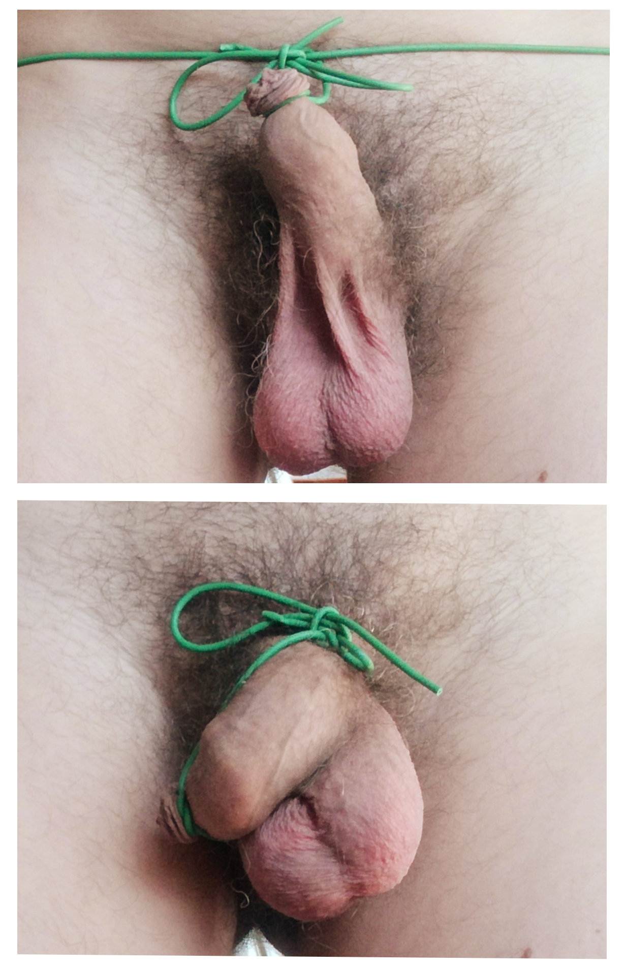 The two different ways in which kynodesme was tied in ancient Greece. Above: tied to a rope passed around the waist. Below: tied around the base of the penis.